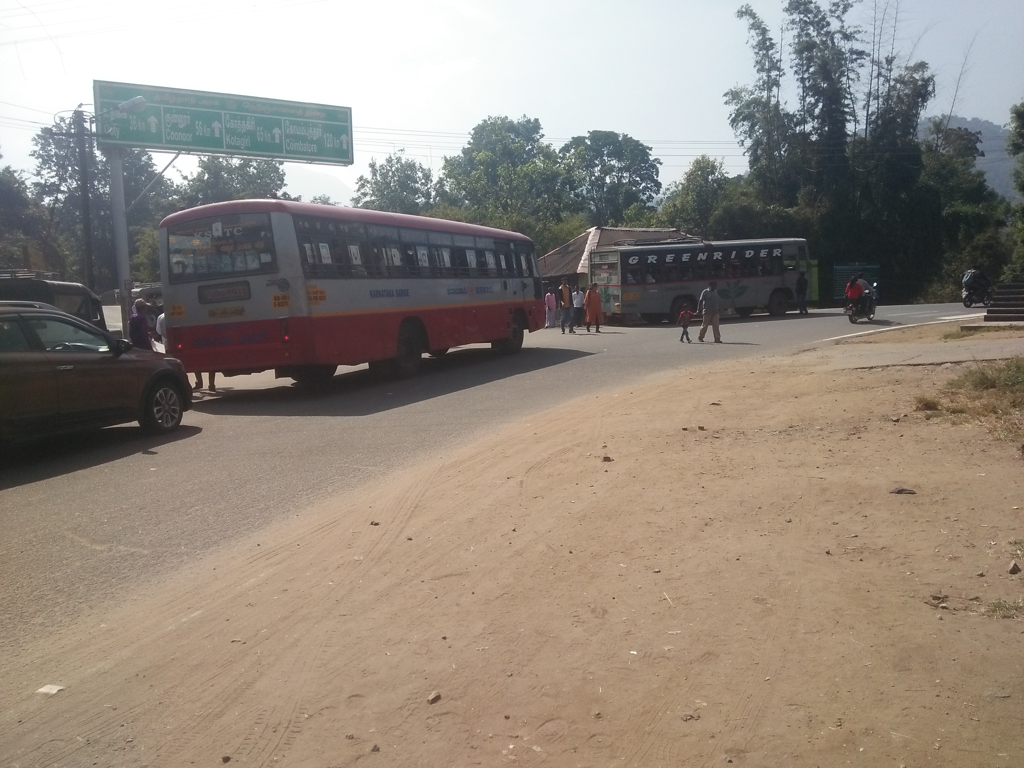 Buses